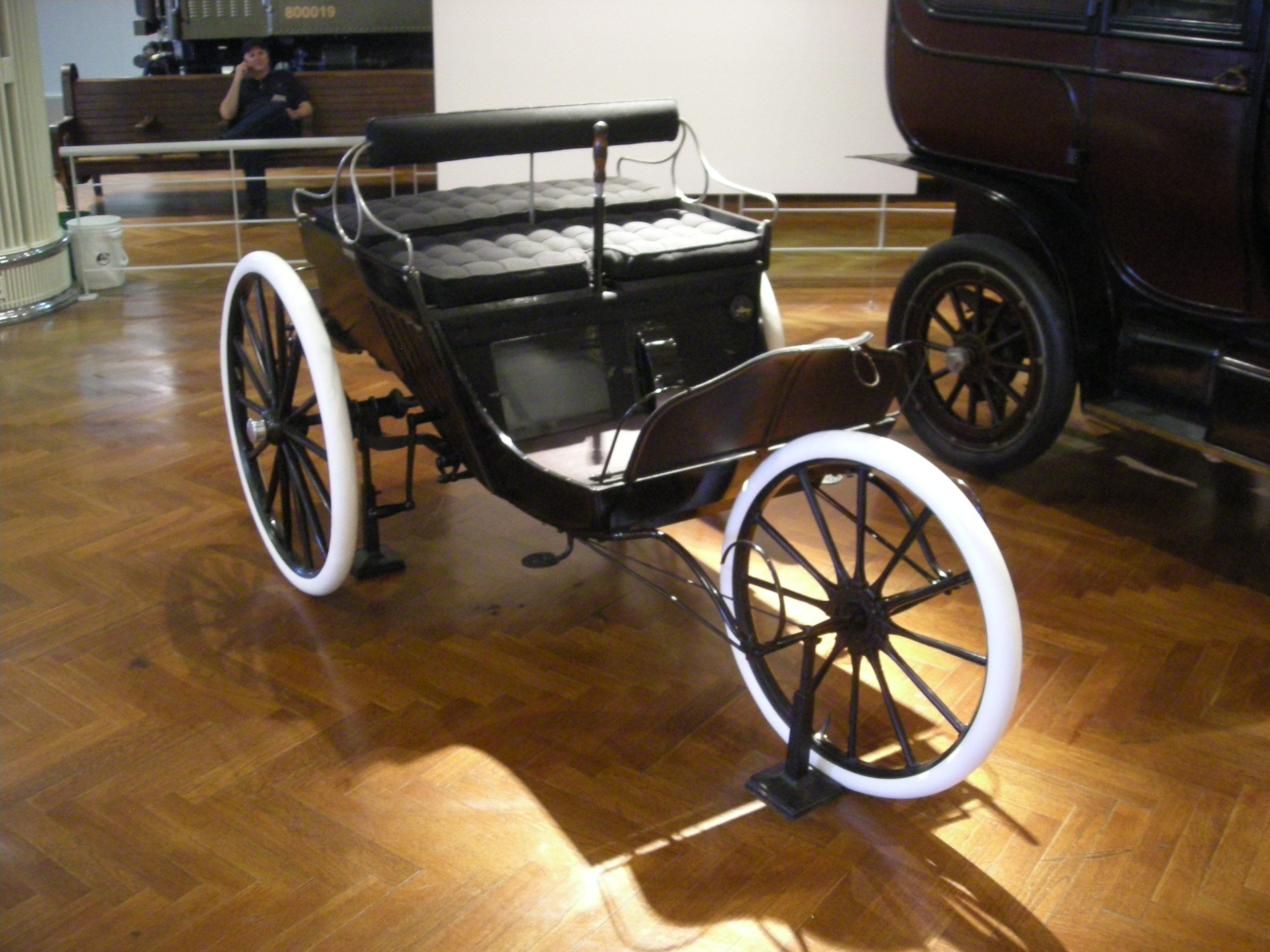 An 1899 Duryea trap on display at the Henry Ford Museum in Dearborn, Michigan (United States).